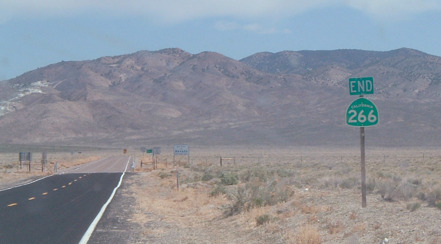 The southern terminus of California State Route 266 and the western terminus of Nevada State Route 266 at the California State Line. Not the best photo in the world, but it's what I have to support the article.